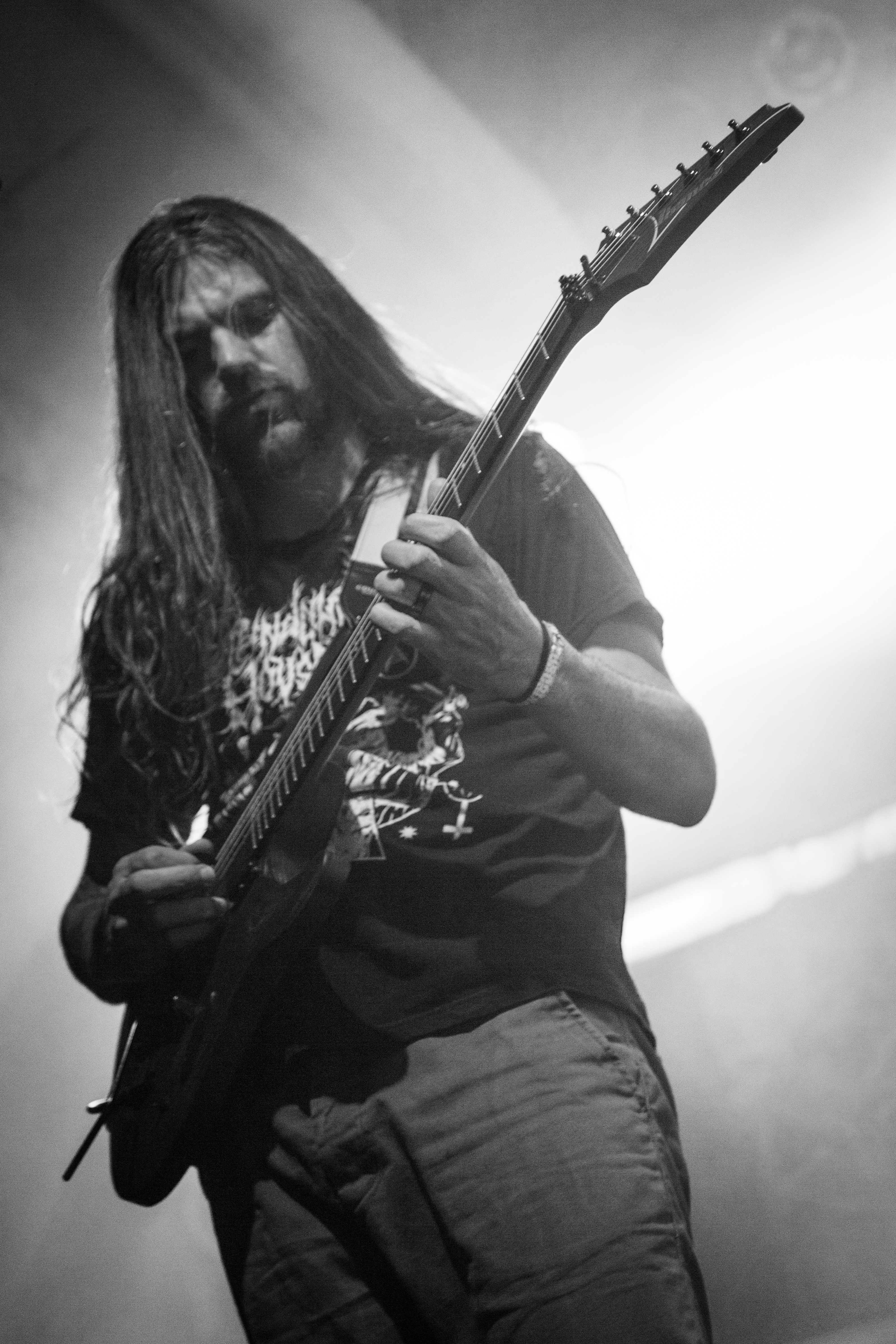 Between the Buried and Me performing live at Euroblast Festival 2015, Cologne, Germany